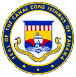 Posted on the Panama Canal Society website. This seal was created by the federal government of the United States and constitutes the seal of the Panama Canal Zone, a former territory under the administration of the US government. It was created on 1906.